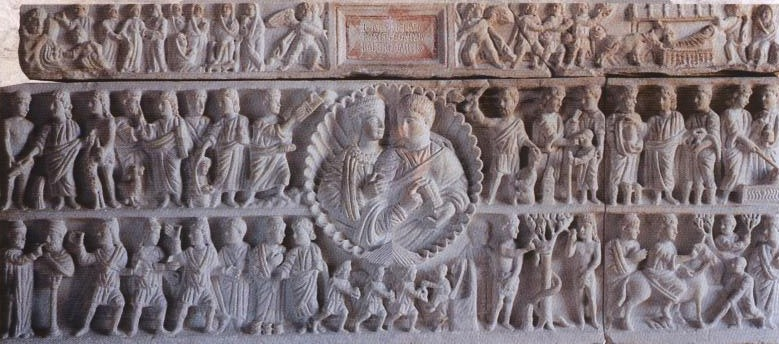 Adelphia's sarcophagus (4th/5th century AD), Museo archeologico, Syracuse (Italy)